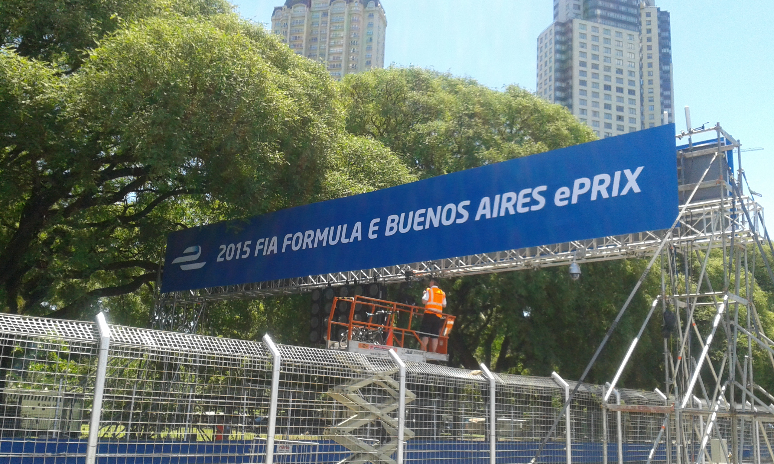 Preparations for the race at start point.